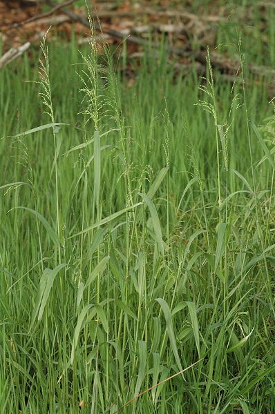 Picture taken in Commanster, Belgian High Ardennes . Species: Milium effusum